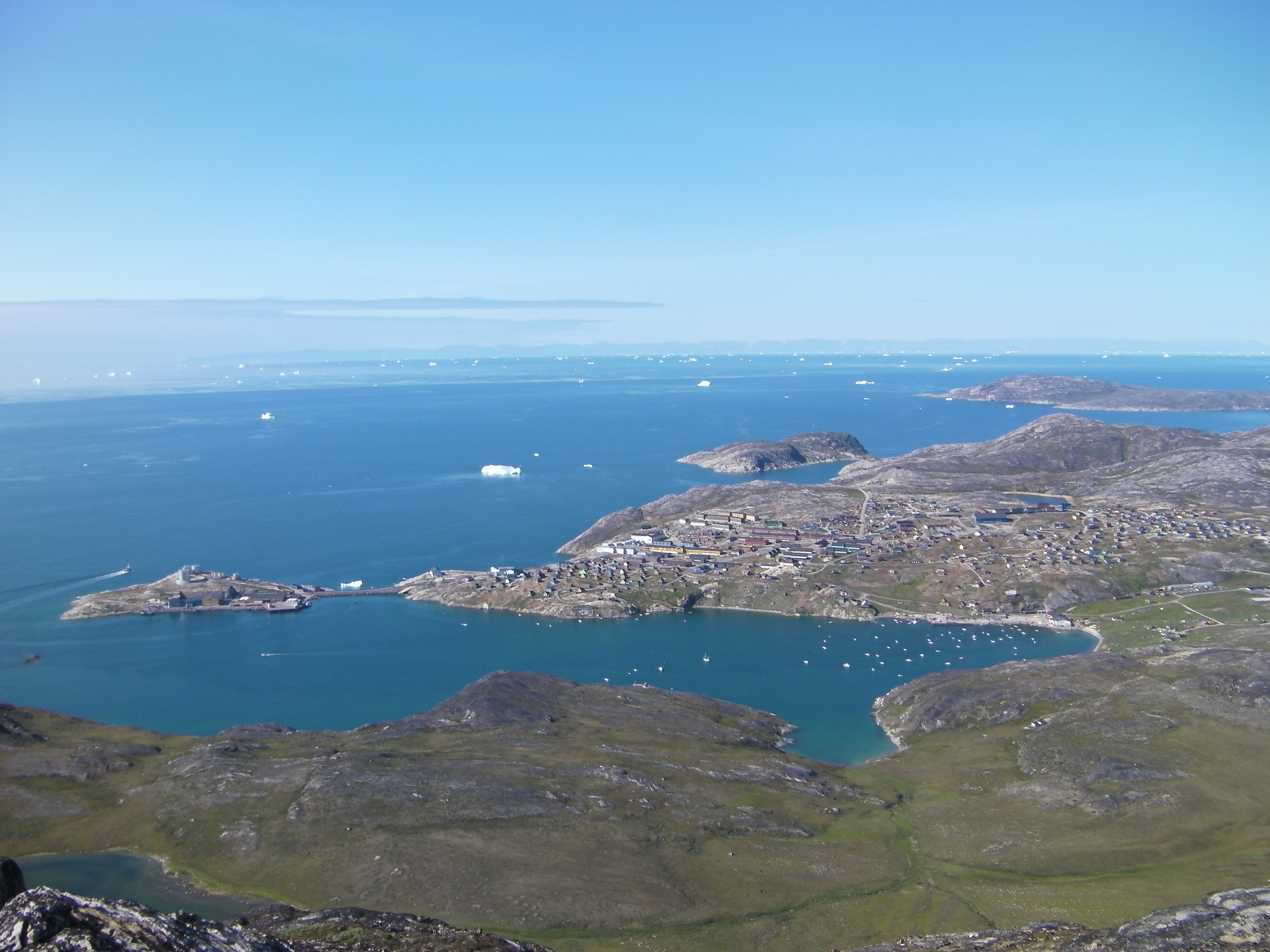 Qasigiannguit seen from south